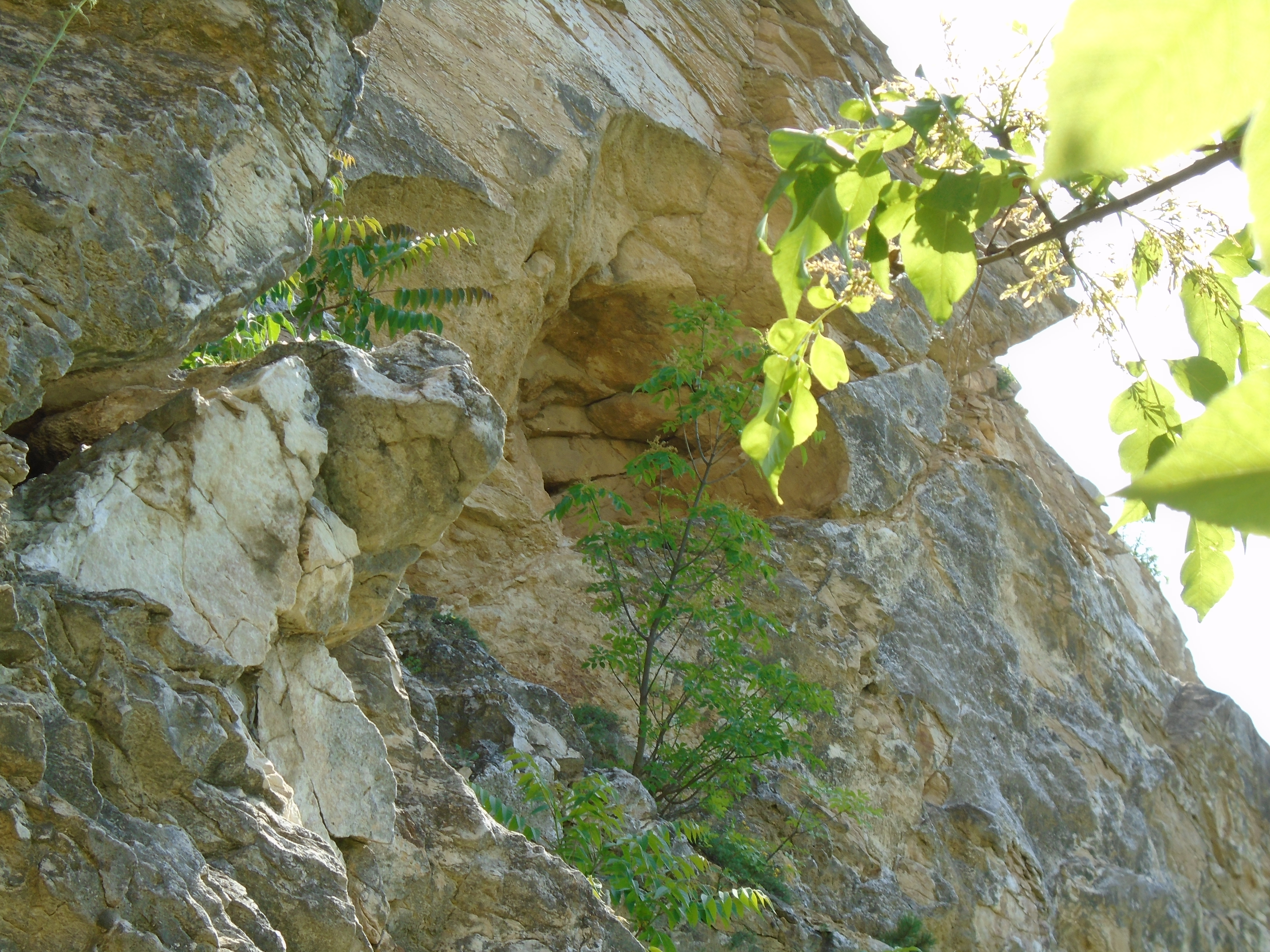 Entrance of Keleti quarry No 13 Cave.